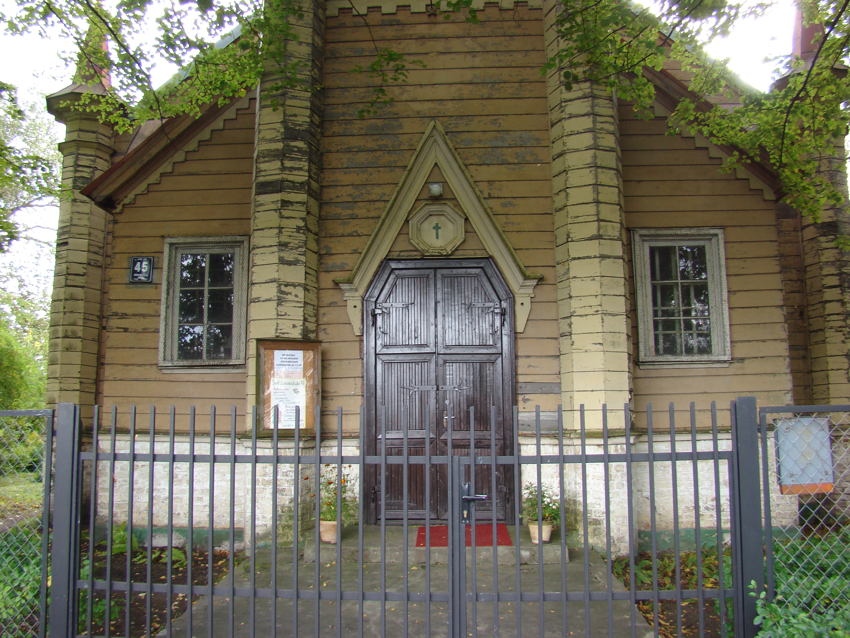 Detail of Bolderāja Evangelical Lutheran Church